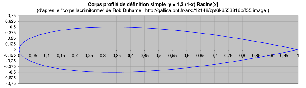 Least drag body of simple definition, according to Rob Duhamel who calls this kind of bodies "lacrimiform" bodies ( The body is drawn in relative abscissa and ordinates (these varying in the range 0 to 1). By homothety, we can therefore give it the appropriate slenderness (3 to 3.5 for a body of least drag 2D of given section and 4 to 4.5 for a body of least 3D drag of given section).